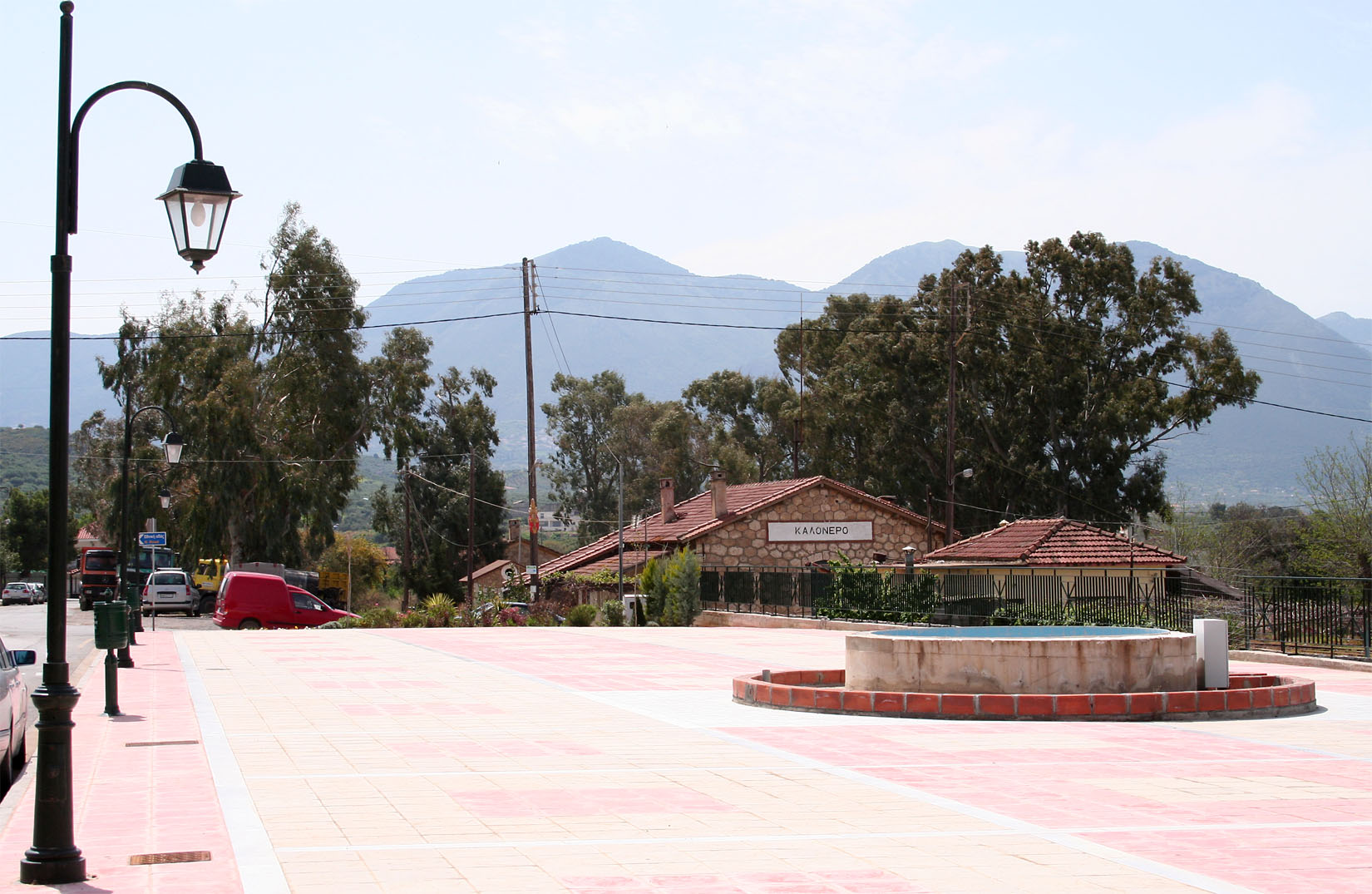 Central square ('πλατεία') of Kalo Nero, with the railway station behind.